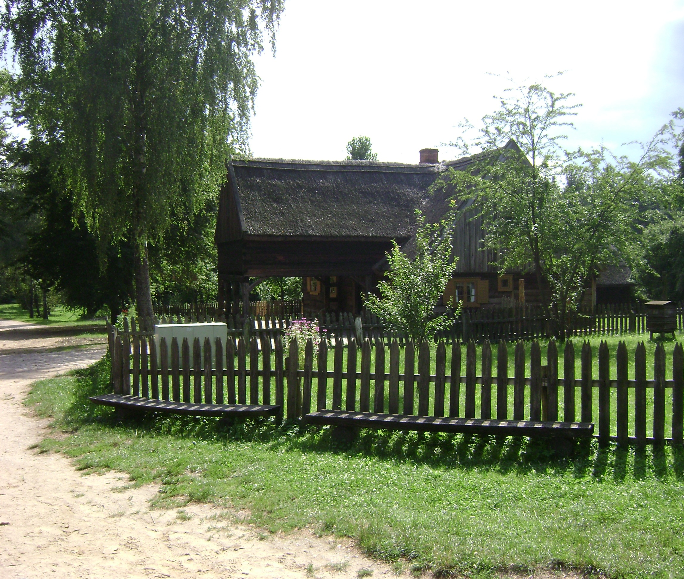 Poland. Olsztynek. Open air museum. (Skansen).